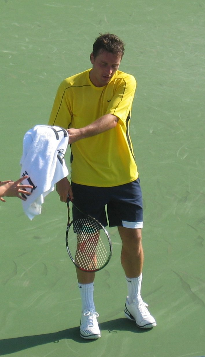 I took this picture myself, please don't take it down.